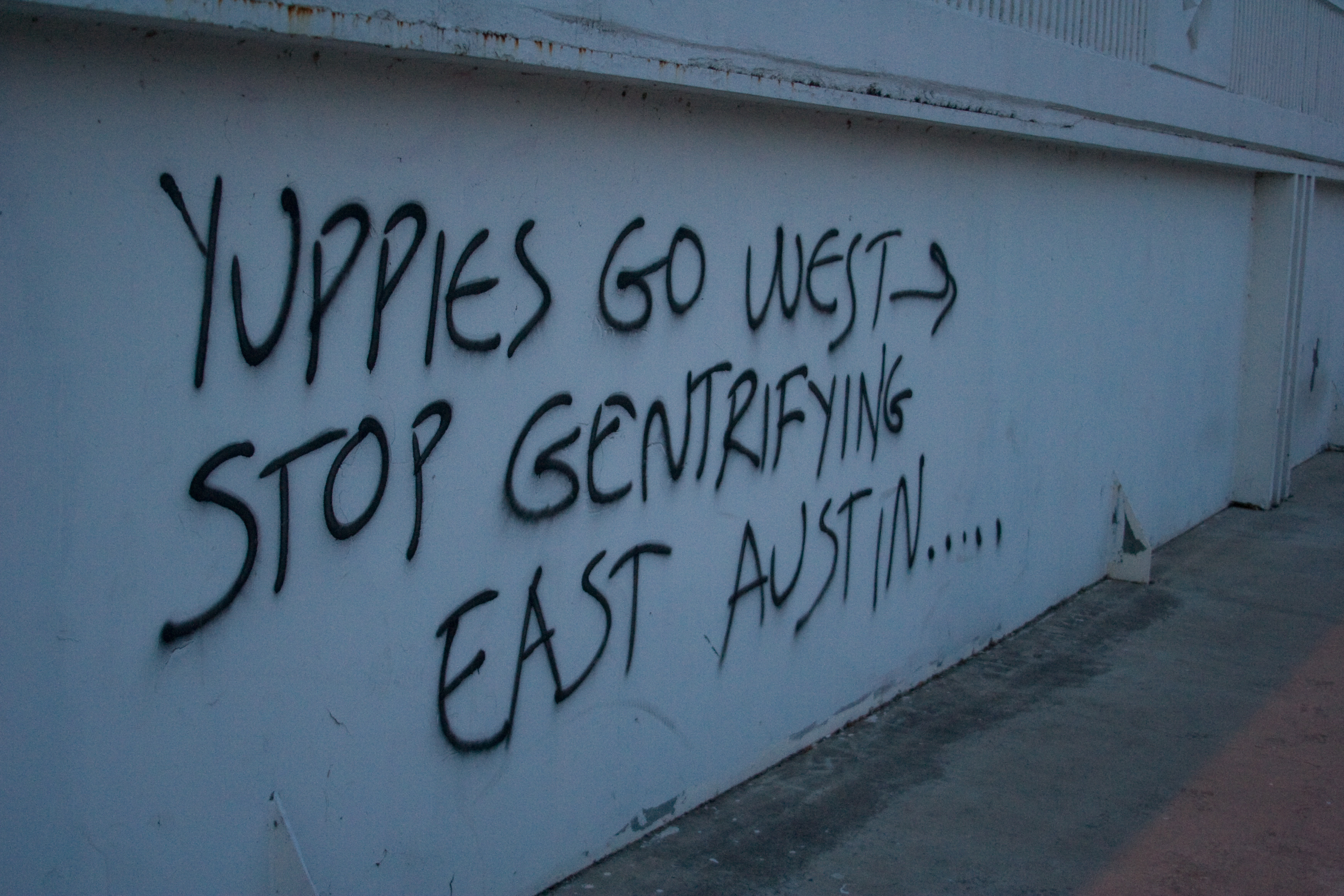 "Yuppies go west, stop gentrifying East Austin"